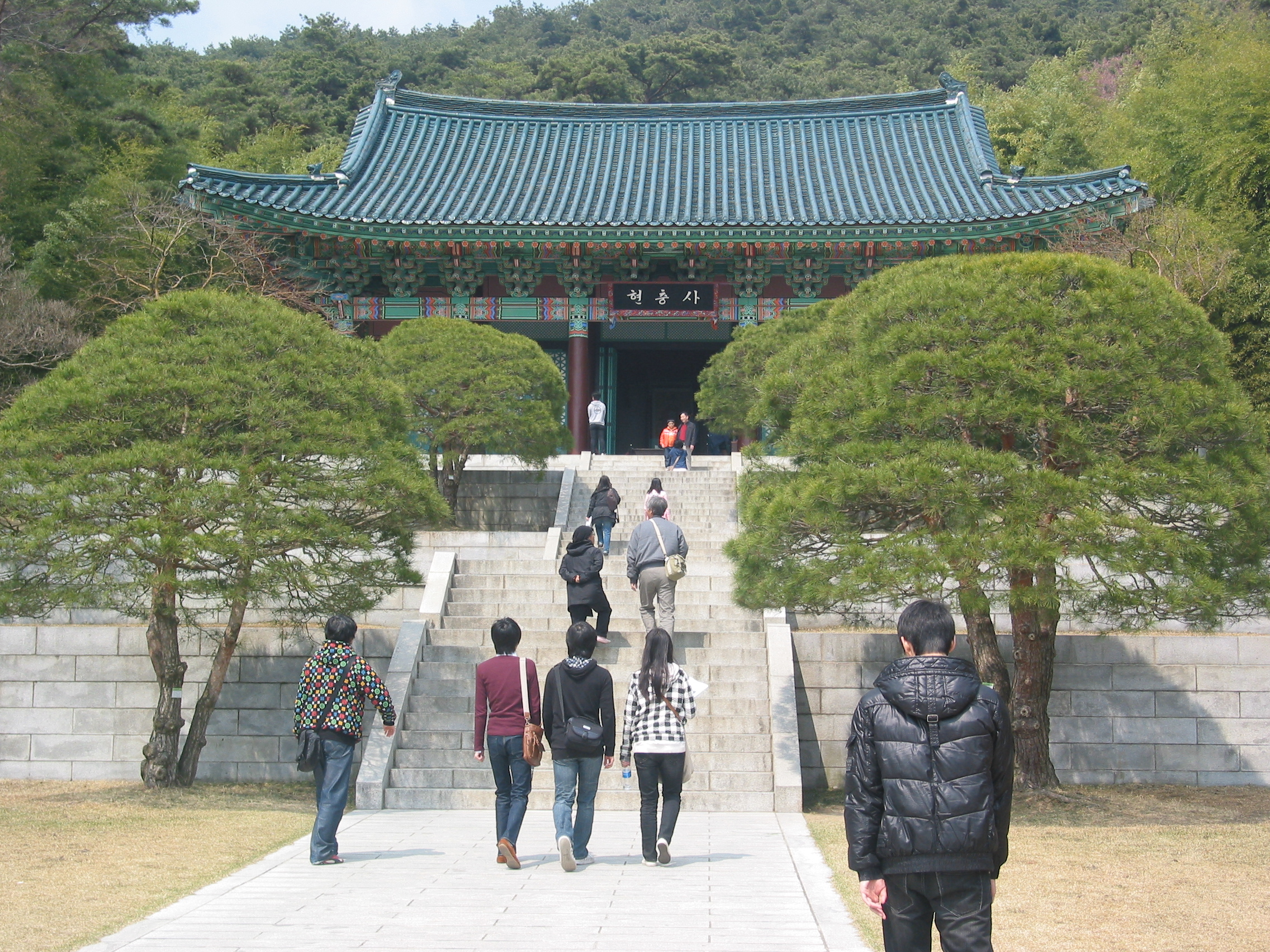 현충사(Hyeonchoong-sa); It is a shrine for 이순신 장군(General Soonshin Lee) who defensed Japanese attack during the mid-age of Choseon.